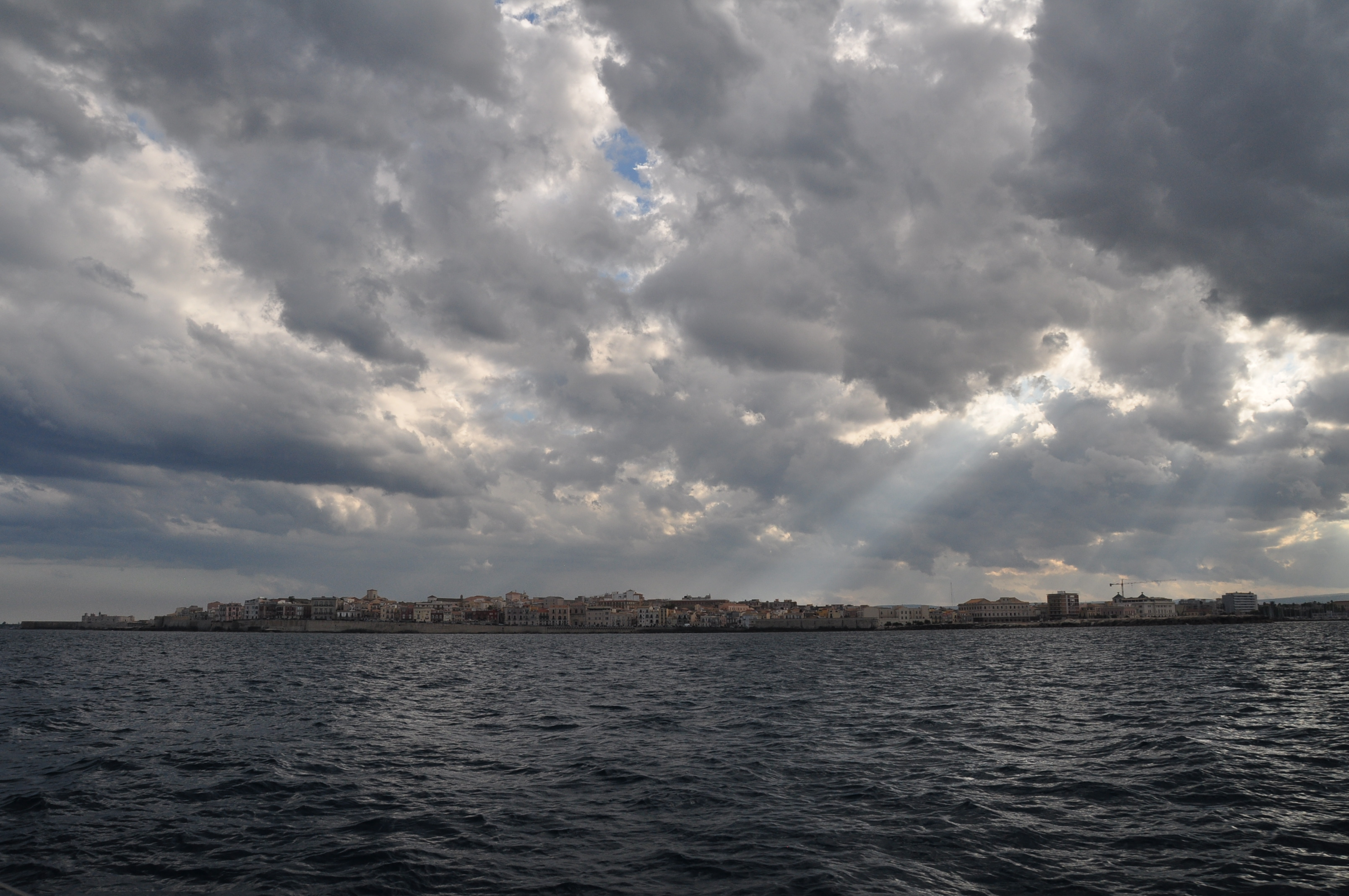 Sailing to Siracusa